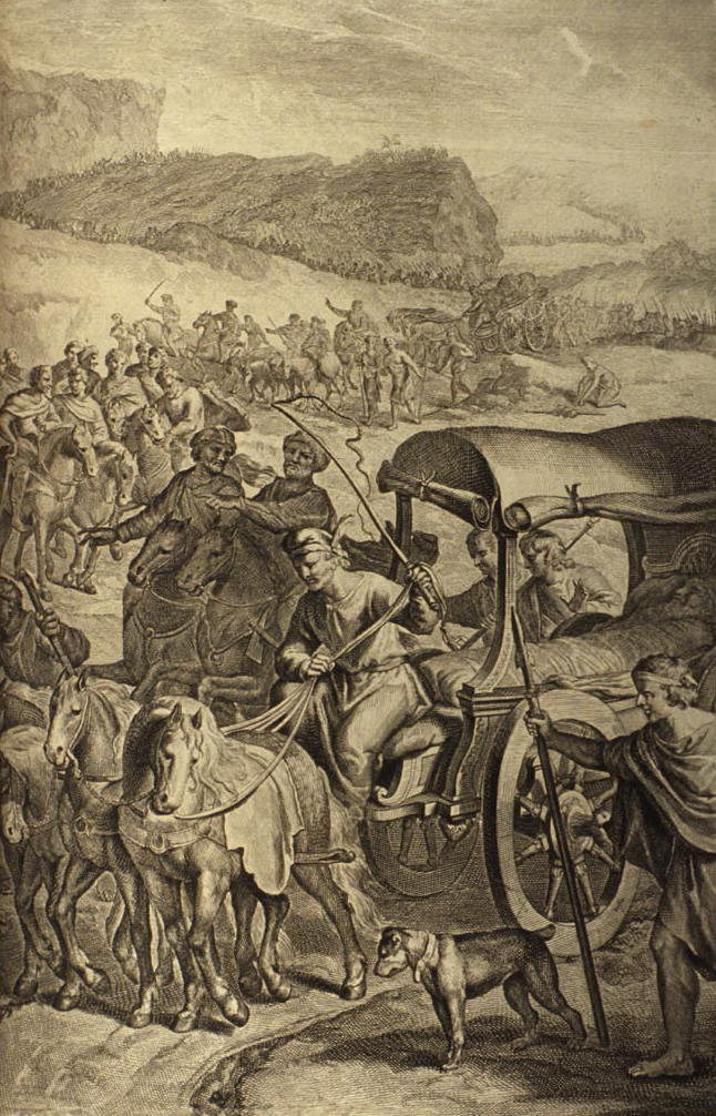 Jacob's Body Carried into Canaan To Be Buried, as in Genesis 50:7-13: "And Joseph went up to bury his father: and with him went up all the servants of Pharaoh, the elders of his house, and all the elders of the land of Egypt, And all the house of Joseph, and his brethren, and his father's house: only their little ones, and their flocks, and their herds, they left in the land of Goshen. And there went up with him both chariots and horsemen: and it was a very great company. And they came to the threshingfloor of Atad, which is beyond Jordan, and there they mourned with a great and very sore lamentation: and he made a mourning for his father seven days. And when the inhabitants of the land, the Canaanites, saw the mourning in the floor of Atad, they said, This is a grievous mourning to the Egyptians: wherefore the name of it was called Abelmizraim, which is beyond Jordan. And his sons did unto him according as he commanded them: For his sons carried him into the land of Canaan, and buried him in the cave of the field of Machpelah, which Abraham bought with the field for a possession of a burying place of Ephron the Hittite, before Mamre."; illustration from the 1728 Figures de la Bible; illustrated by Gerard Hoet (1648-1733) and others, and published by P. de Hondt in The Hague; image courtesy Bizzell Bible Collection, University of Oklahoma Libraries